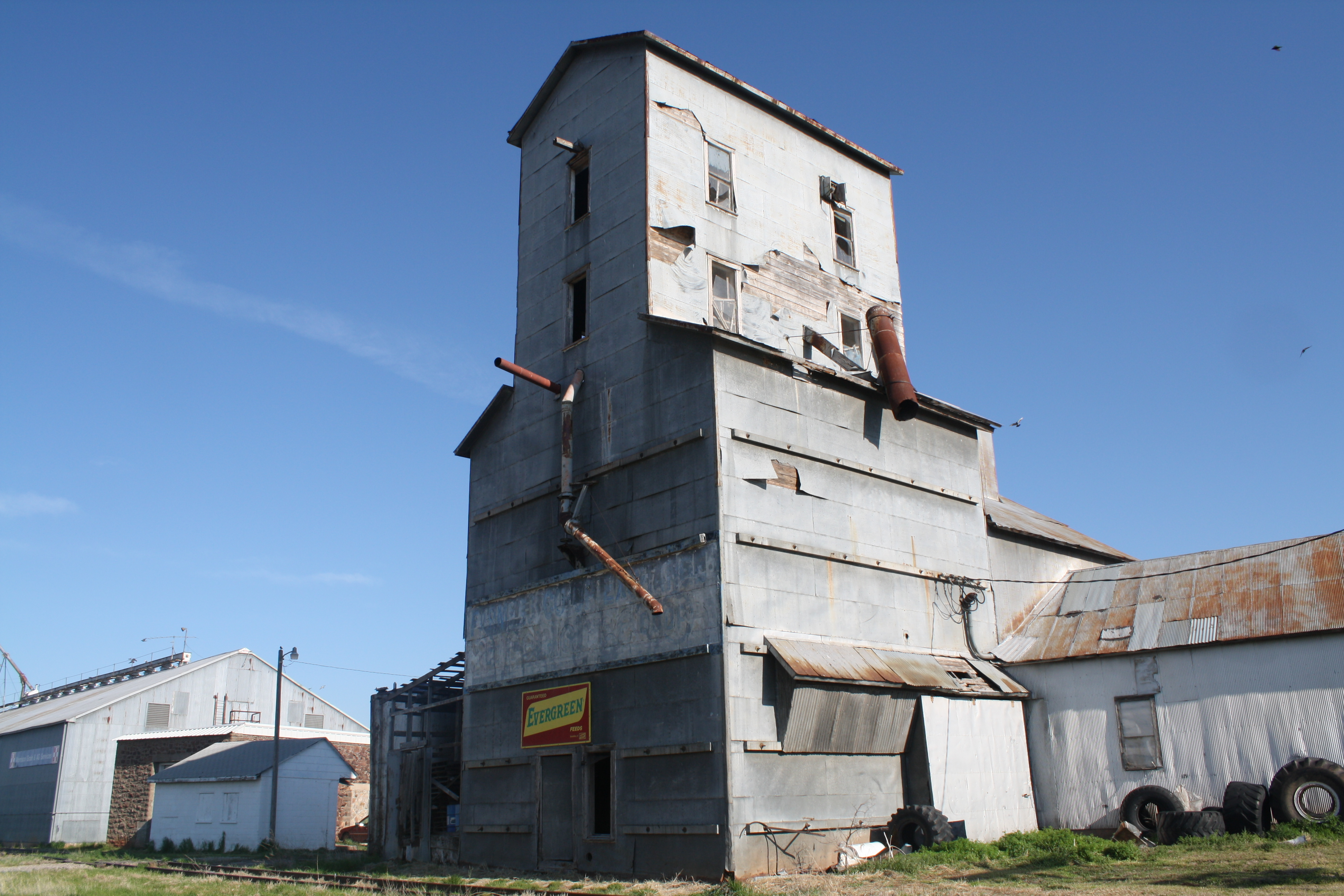 Grain elevator in Morrison, Oklahoma, USA